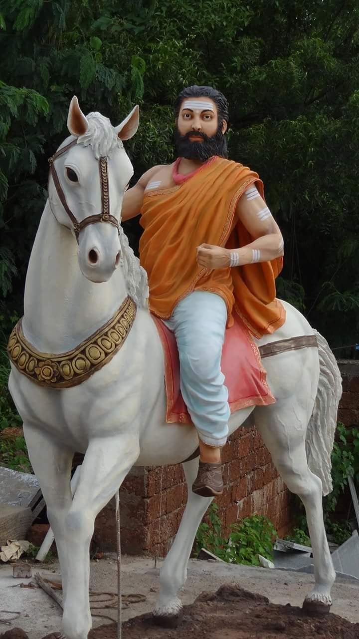 This is an statue of an freedom fighter.